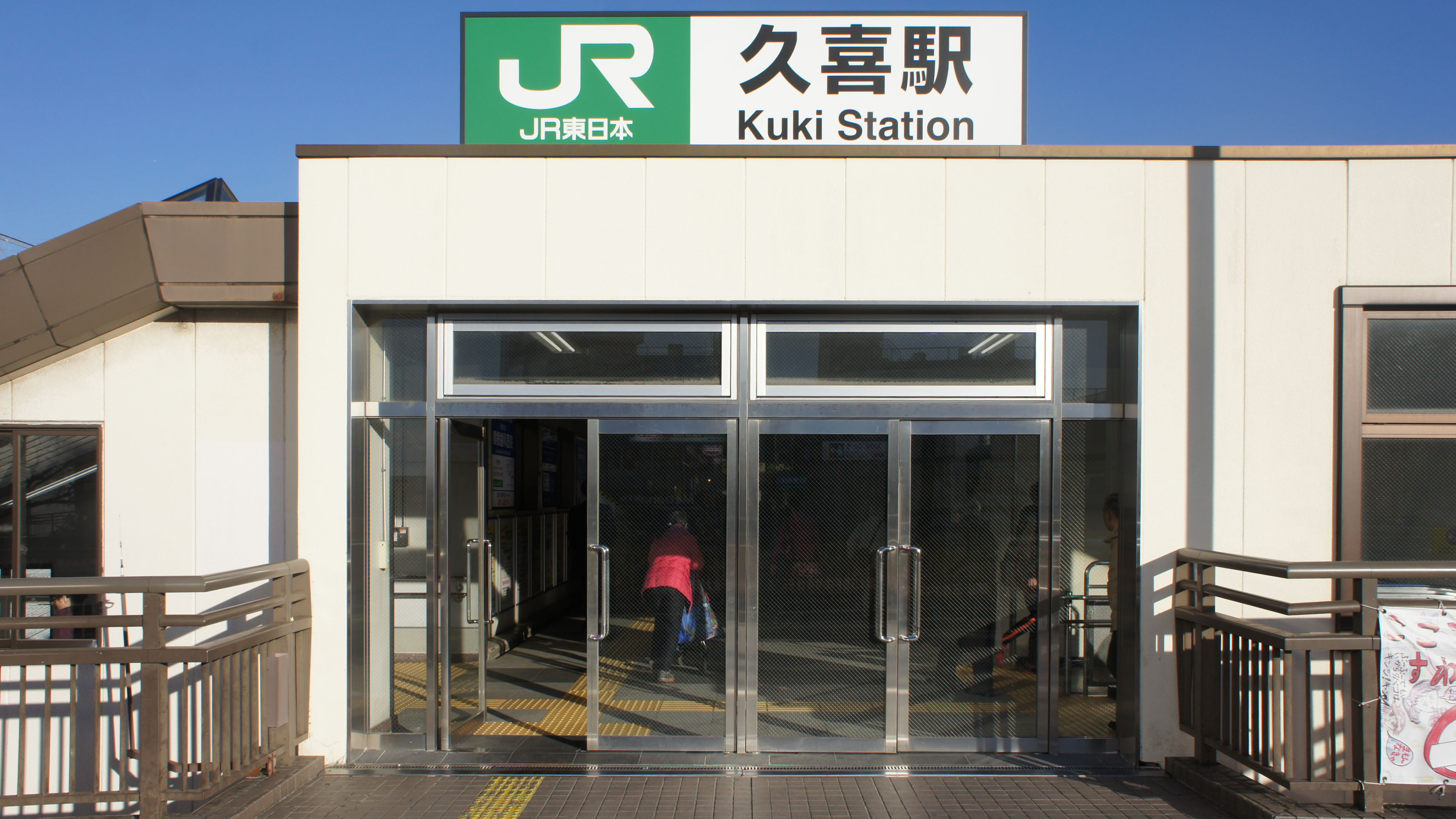 West Exit of Kuki Station Sony NEX-3